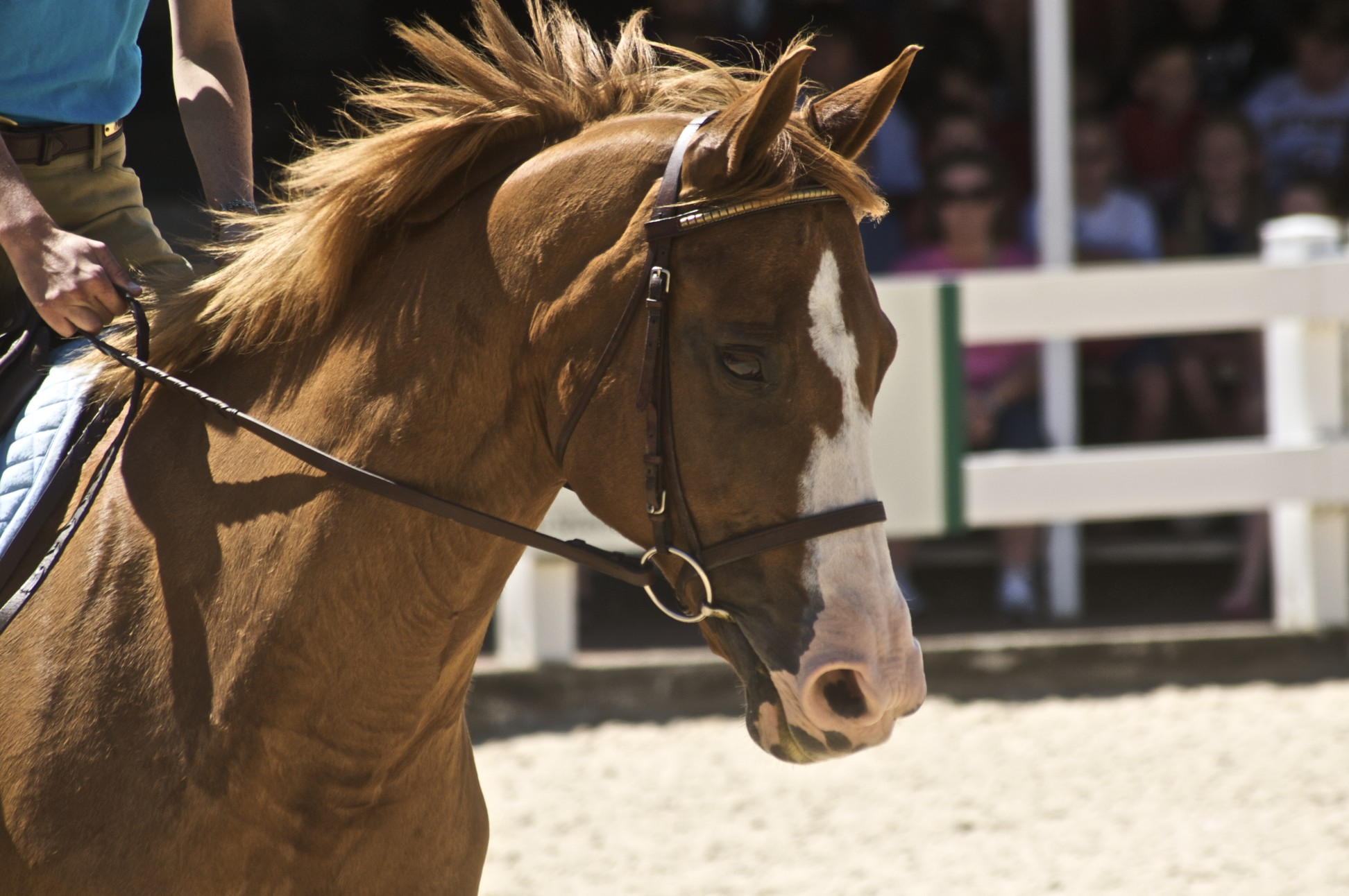 Head of a chestnut Selle français horse.